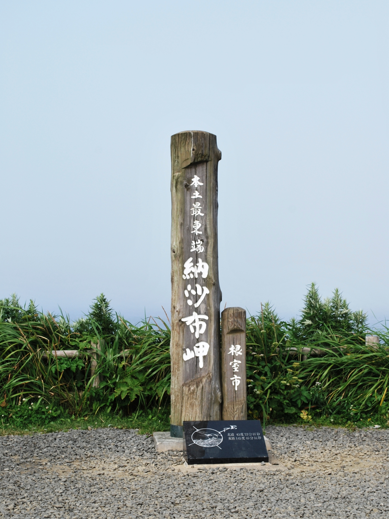 The monument of the most east end at Nossapu cape